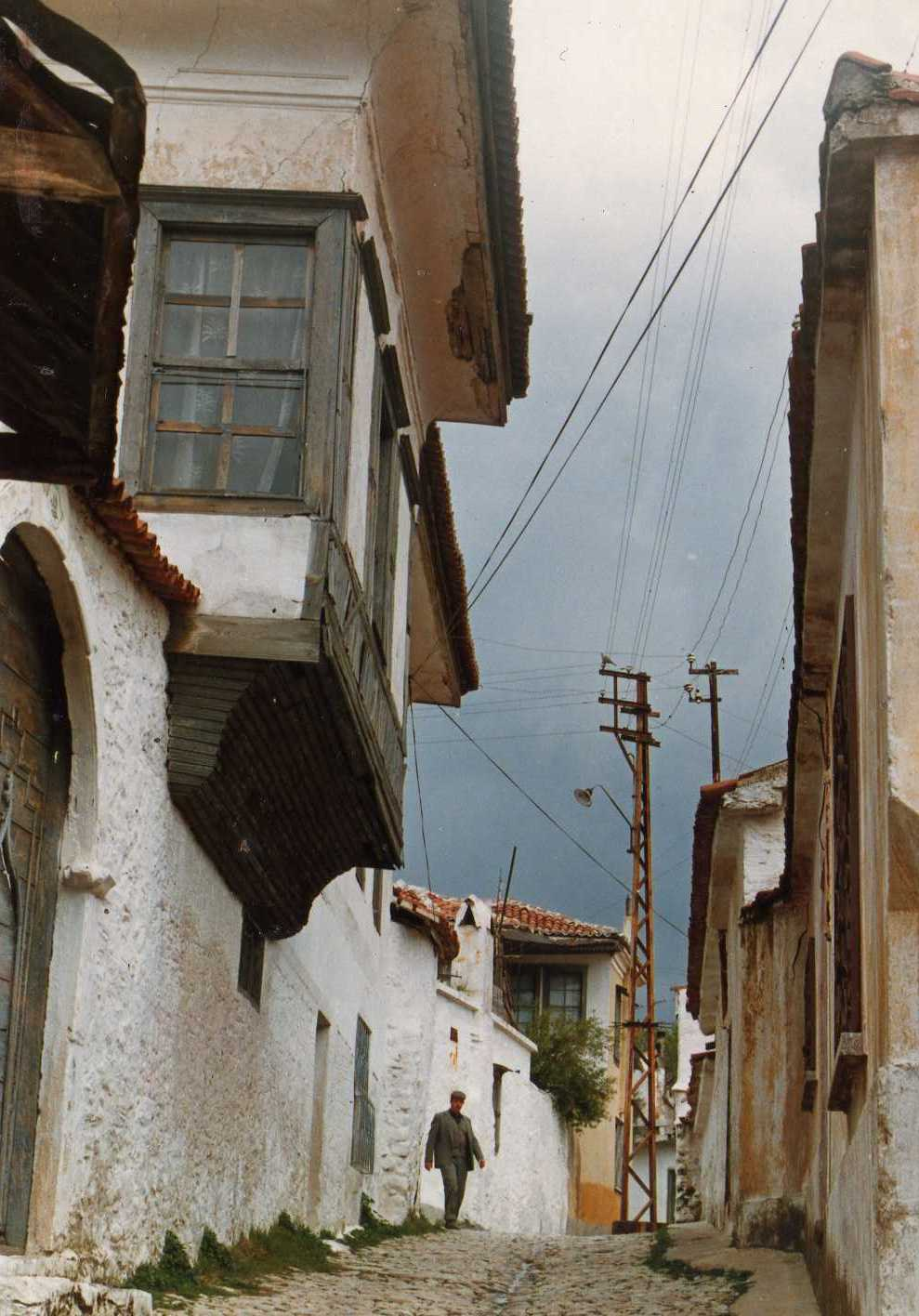 Street in the old quarters of Muğla.